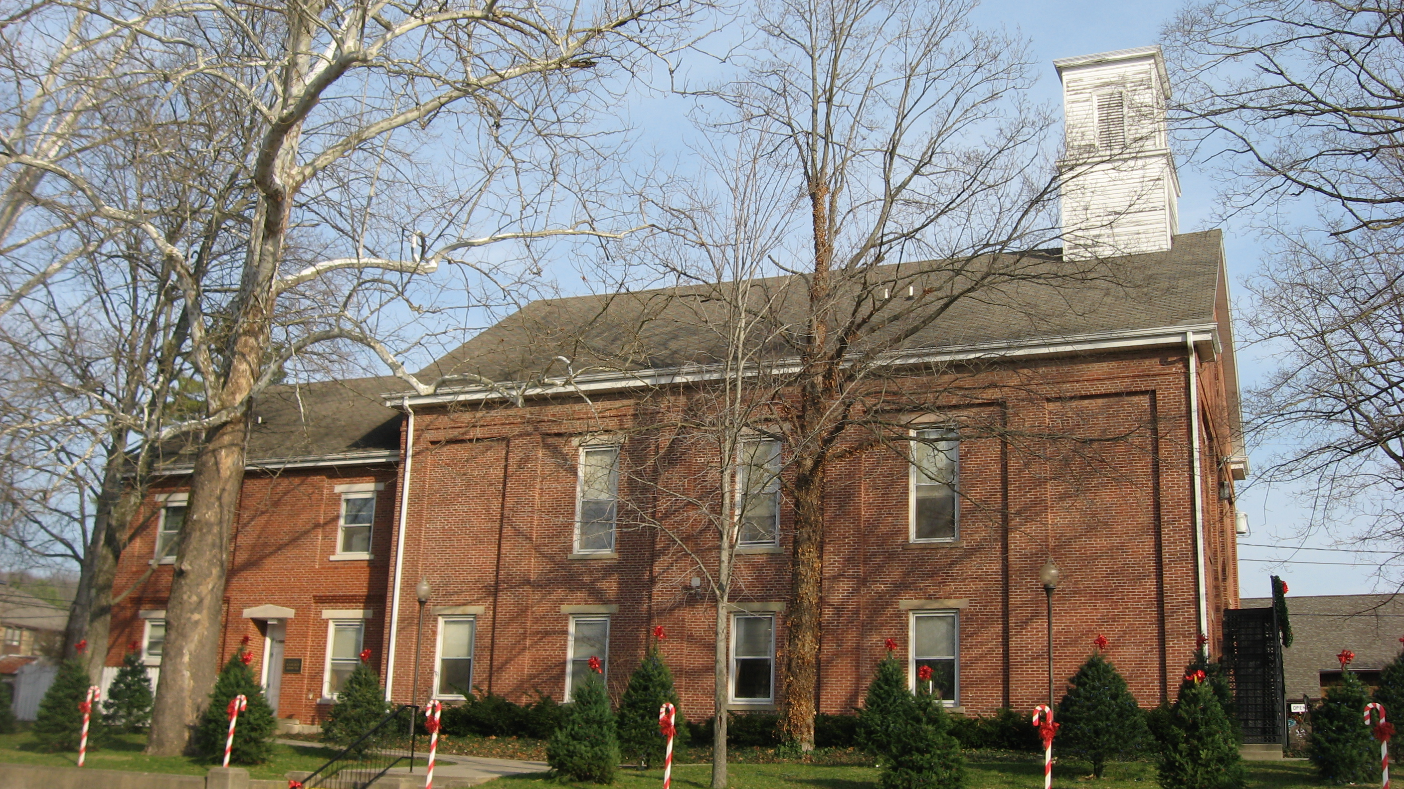 Wastern side of the Brown County Courthouse, located at 20 E. Main Street in downtown Nashville, Indiana, United States. Built in 1874, the courthouse is now part of a historic district that is listed on the National Register of Historic Places, known as the "Brown County Courthouse Historic District".